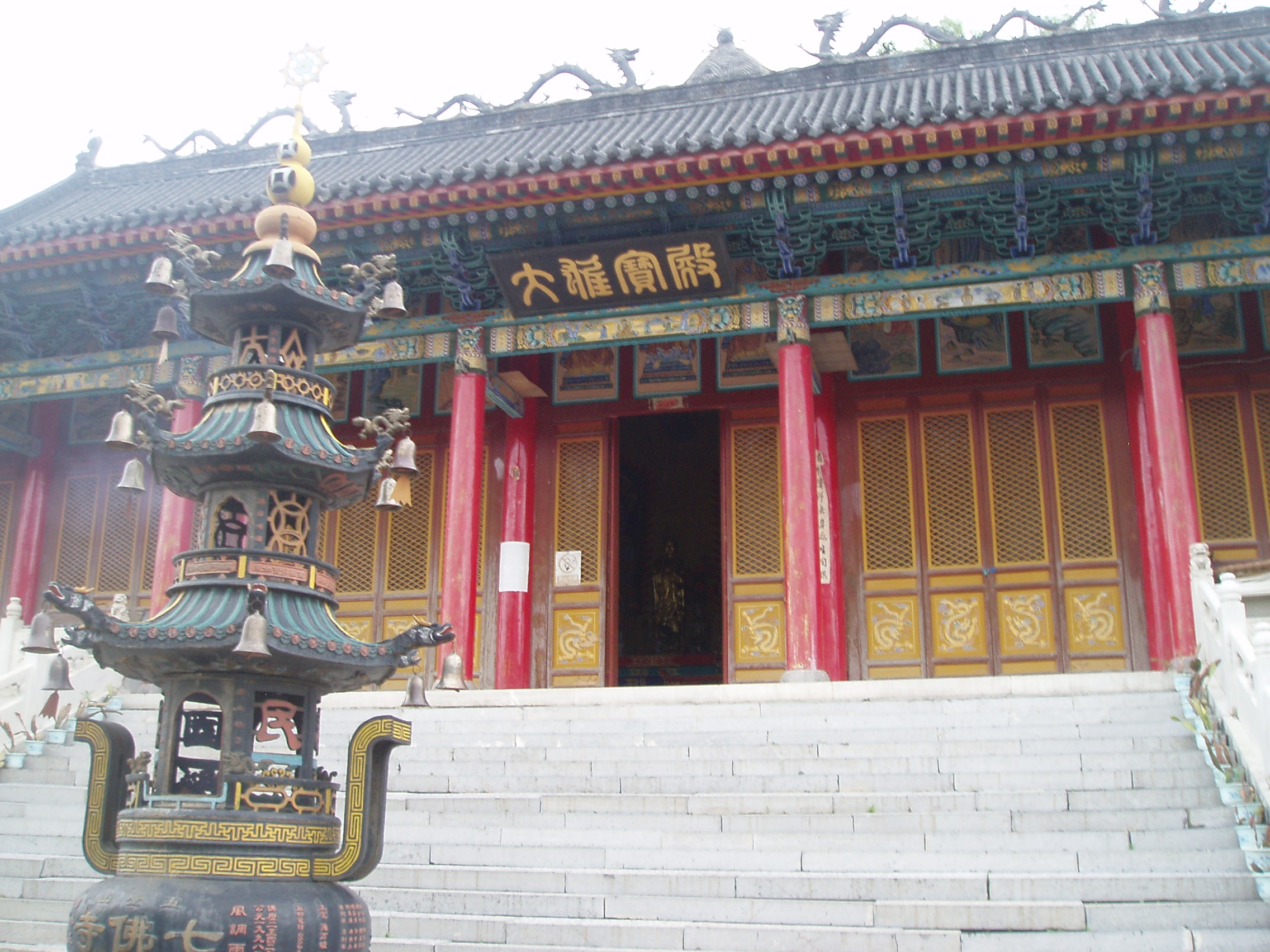 The main hall (thrid) at Qifo Temple in Wutaishan.